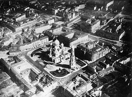 Aerial Photo of Warsaw in early 1920's. Visible in the center of the photo is Saxon Square and Alexander Nevsky Cathedral.